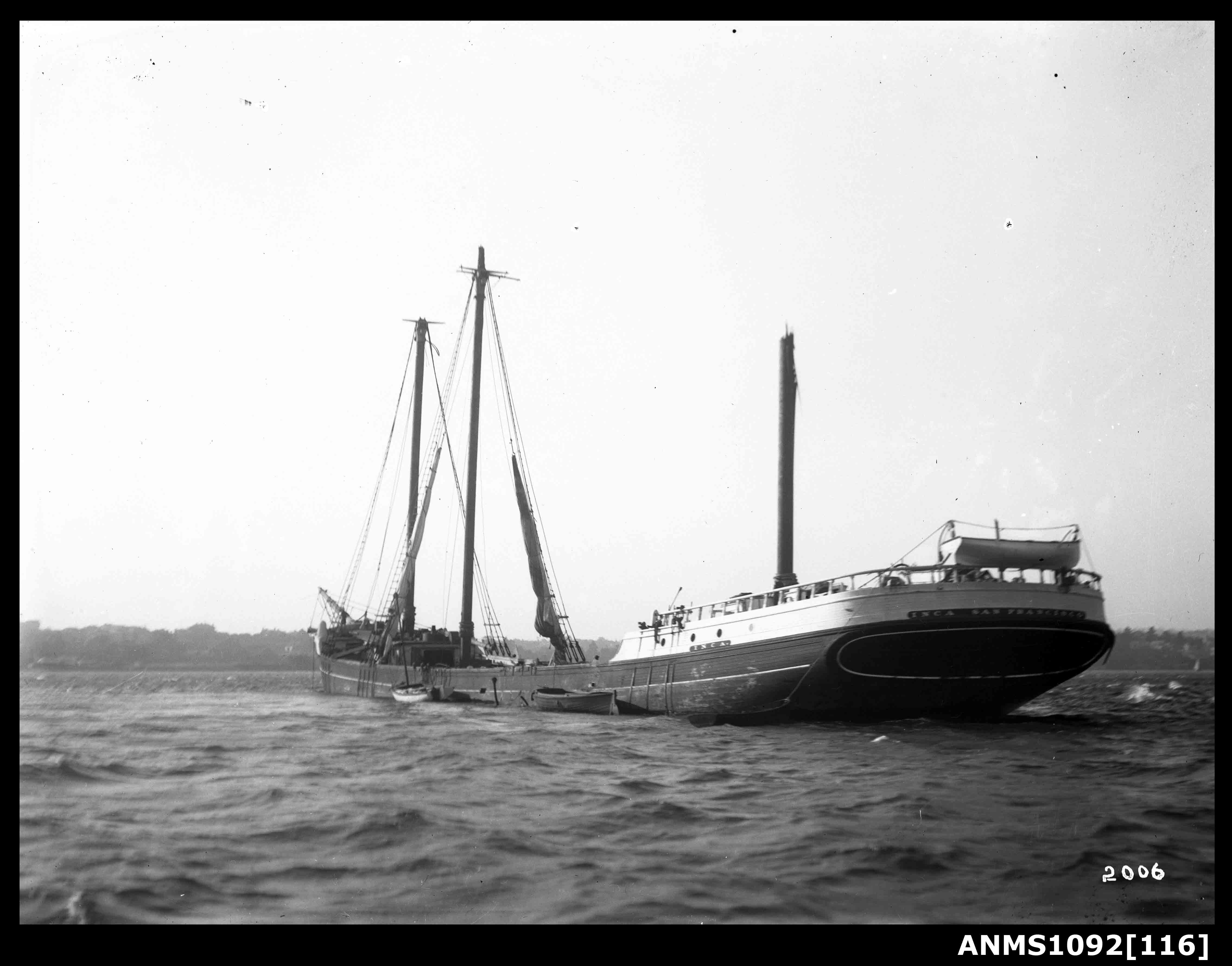 Damaged schooner INCA at anchor, possibly in Sydney Harbour, c 1920. From the collection of the Australian National Maritime Museum, object ANMS1092[116]